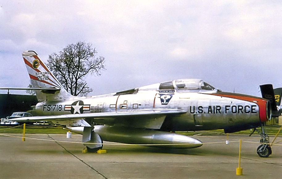 78th Fighter-Interceptor Squadron - Republic F-84F-45-RE Thunderstreak - 52-6718